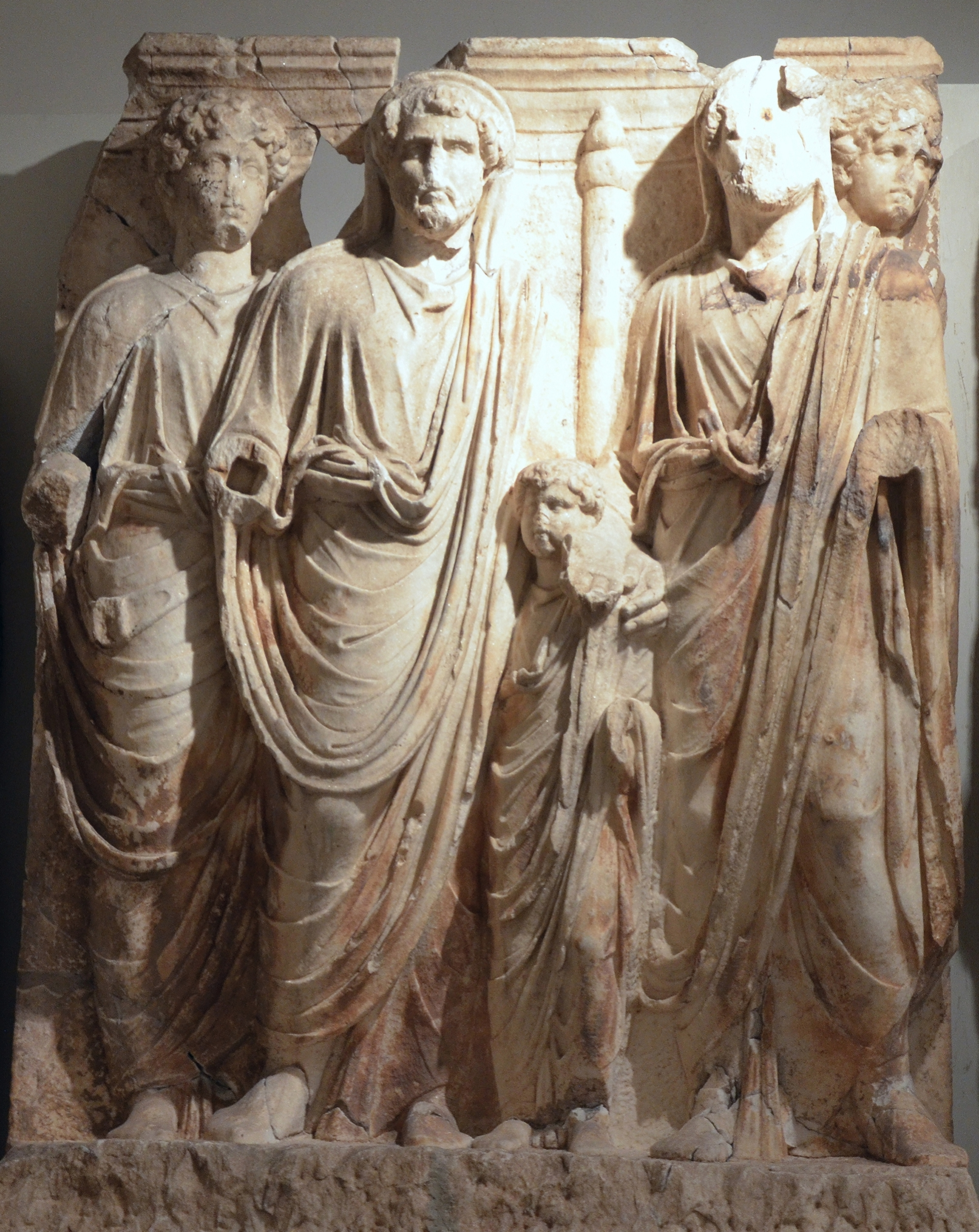 During his reign the Emperor Hadrian (figure right) adopted Antoninus Pius (centre left) and he in turn adopted the 17 year old Marcus Aurelius (left) and the 8 year-old Lucius Verus. A head stares from behind Hadrian’s left shoulder, presumably representing the guardian spirit of Aelius Verus, the late father of Lucius. The sacrifice of a bull is being offered to the gods. A large part of the reliefs from the Parthian monument was found by Austrian archaeologists in Ephesus from 1897 to 1901. During roughly the same period they were moved, with permission obtained from Sultan Abdul Hammed II to Vienna. Some of these were exhibited for the first time in 1905 in the Vienna History of Art Museum; in 1932 they were moved into Prince Eugene’s old stables. After many adventures during World War II and later, most of the relief plaques with the narrative scenes have today been restored and are exhibited in a separate room in the Ephesos Museum in Vienna. The reliefs which belong to the decorative band are mainly still in Ephesus.